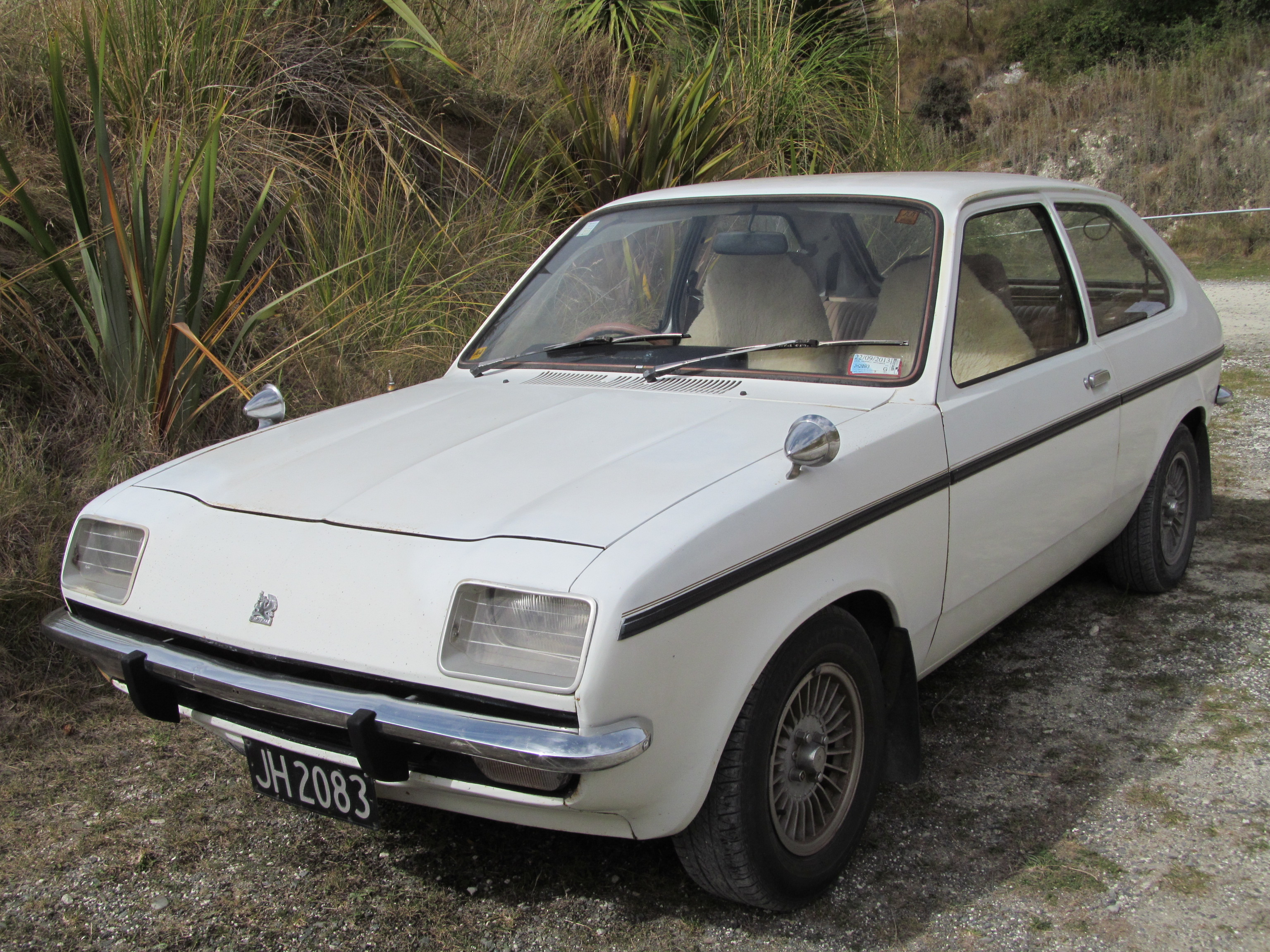 JH2083 This appeared on Stephen's photostream last year, but here it is earlier this year, at the lunch venue for the North Canterbury Classic Tour near Leithfield. The owner was an older chap who looked like he'd owned it a long time!